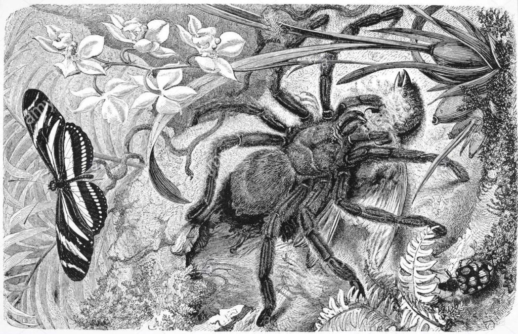 An old image; a big spider (known as a bird-eater, tarantula) eats a bird.